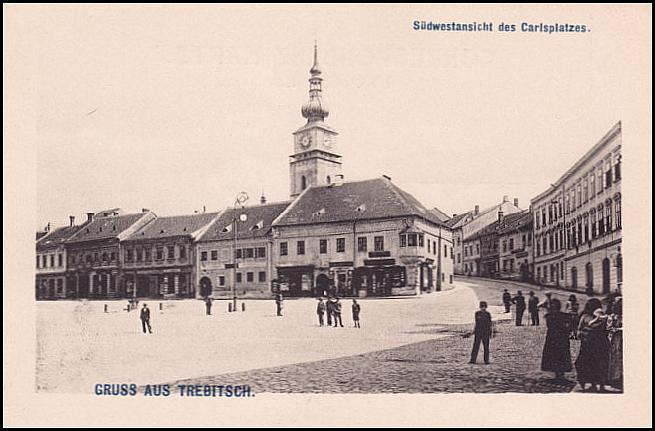 View of Charles square, Malovaný dům and Town tower in 1904 in Třebíč, Třebíč District